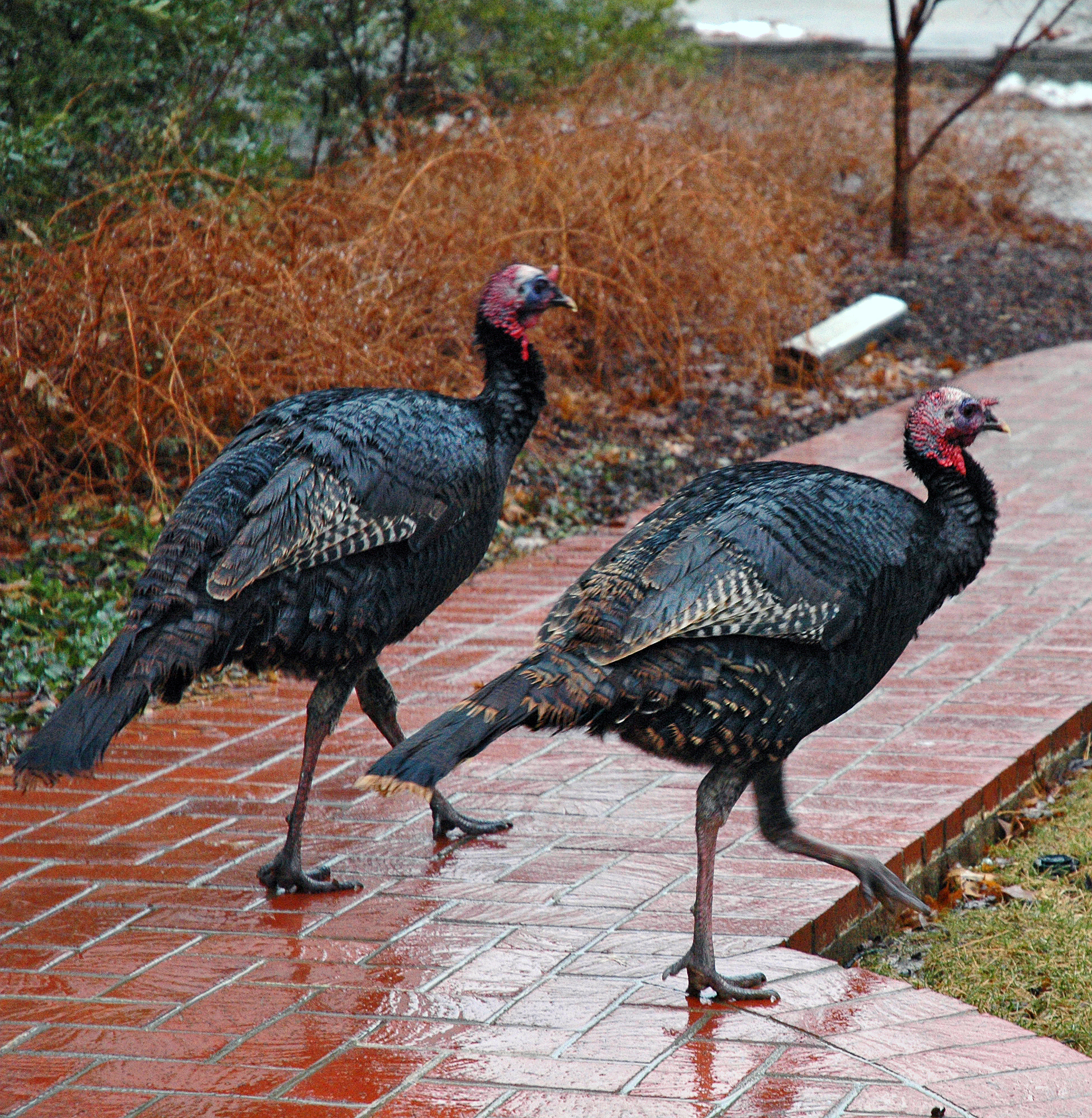 Turkeys on a path in midtown Omaha, Nebraska. Date: February 13, 2005 12:37pm 3